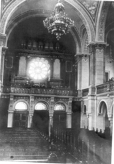 Photography of the inside of the synagogue of Kaiserslautern